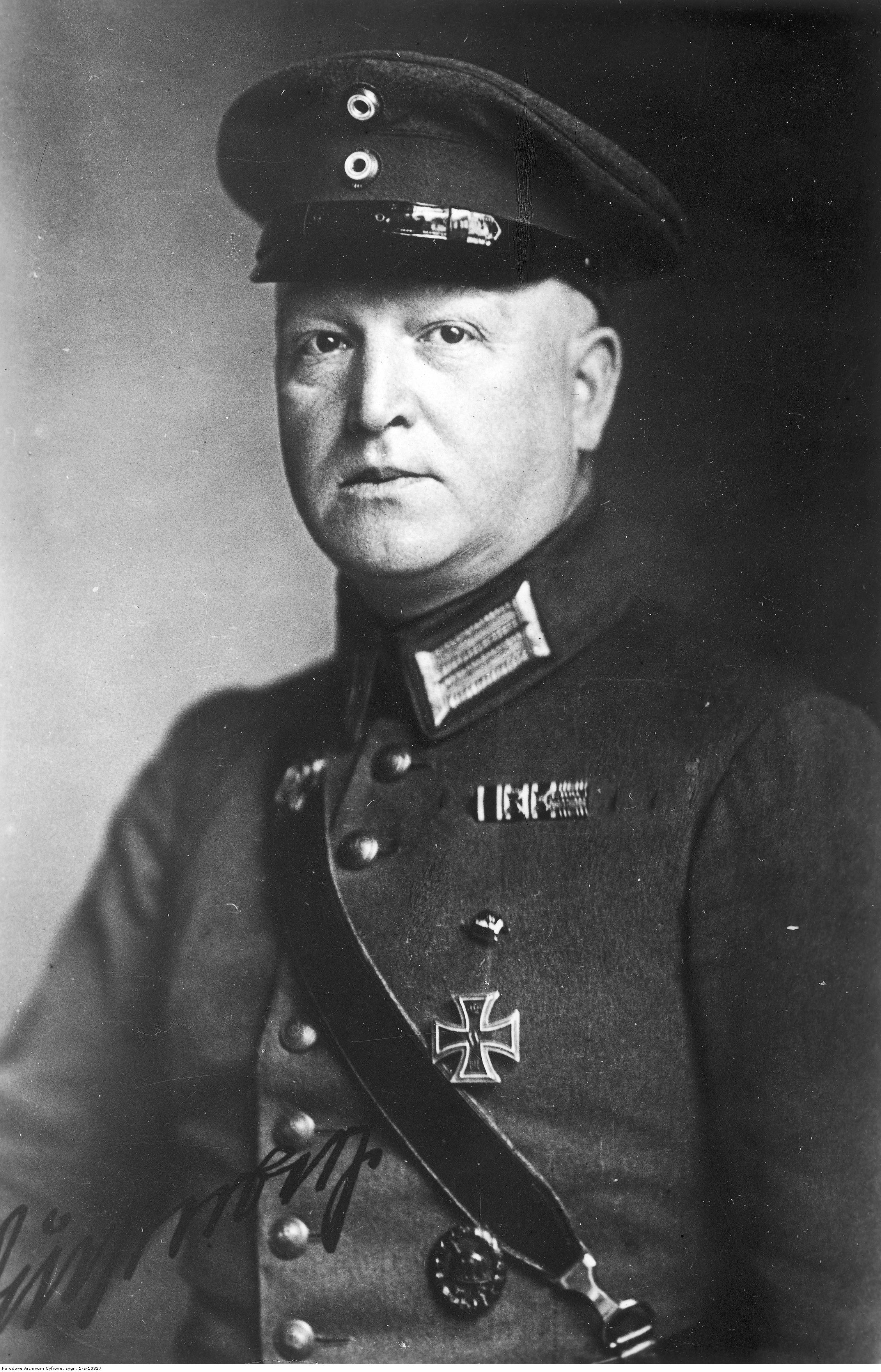 Theodor Duesterberg, chairman of the German national paramilitary organization Stahlhelm Federal - portrait photography (in uniform).